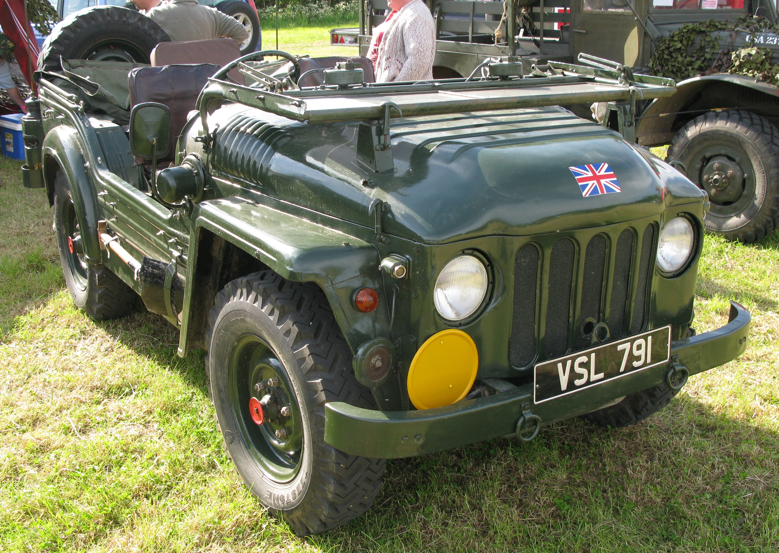 Closey cropped photo of an Austin Champ